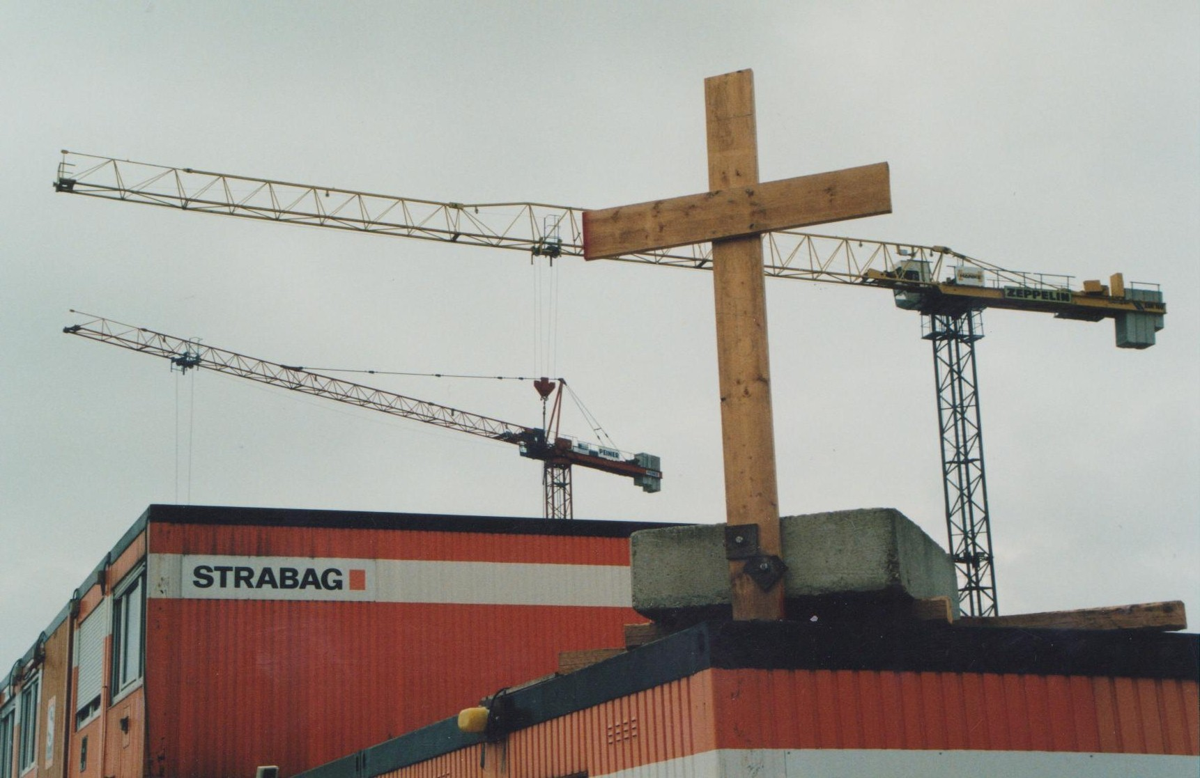 Cross of container churches (Church Centre Hannover), April 1999